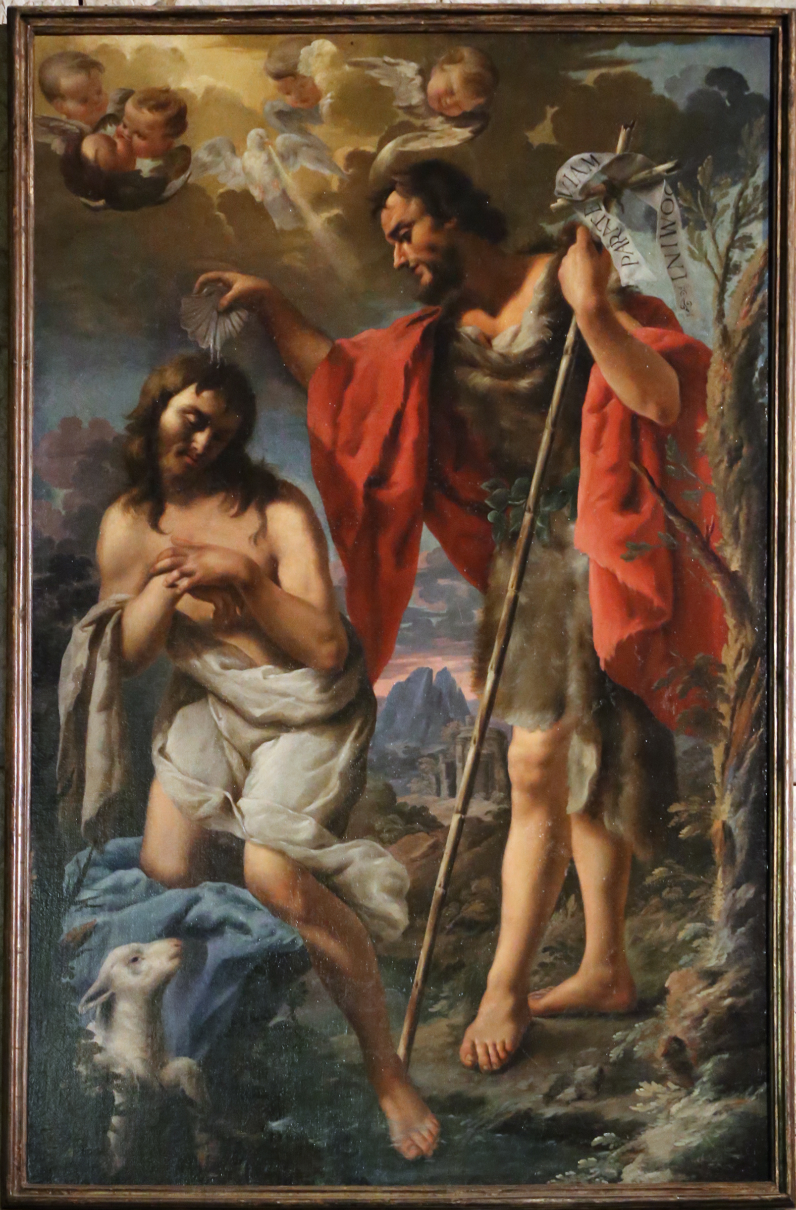 San Pietro a Ripoli